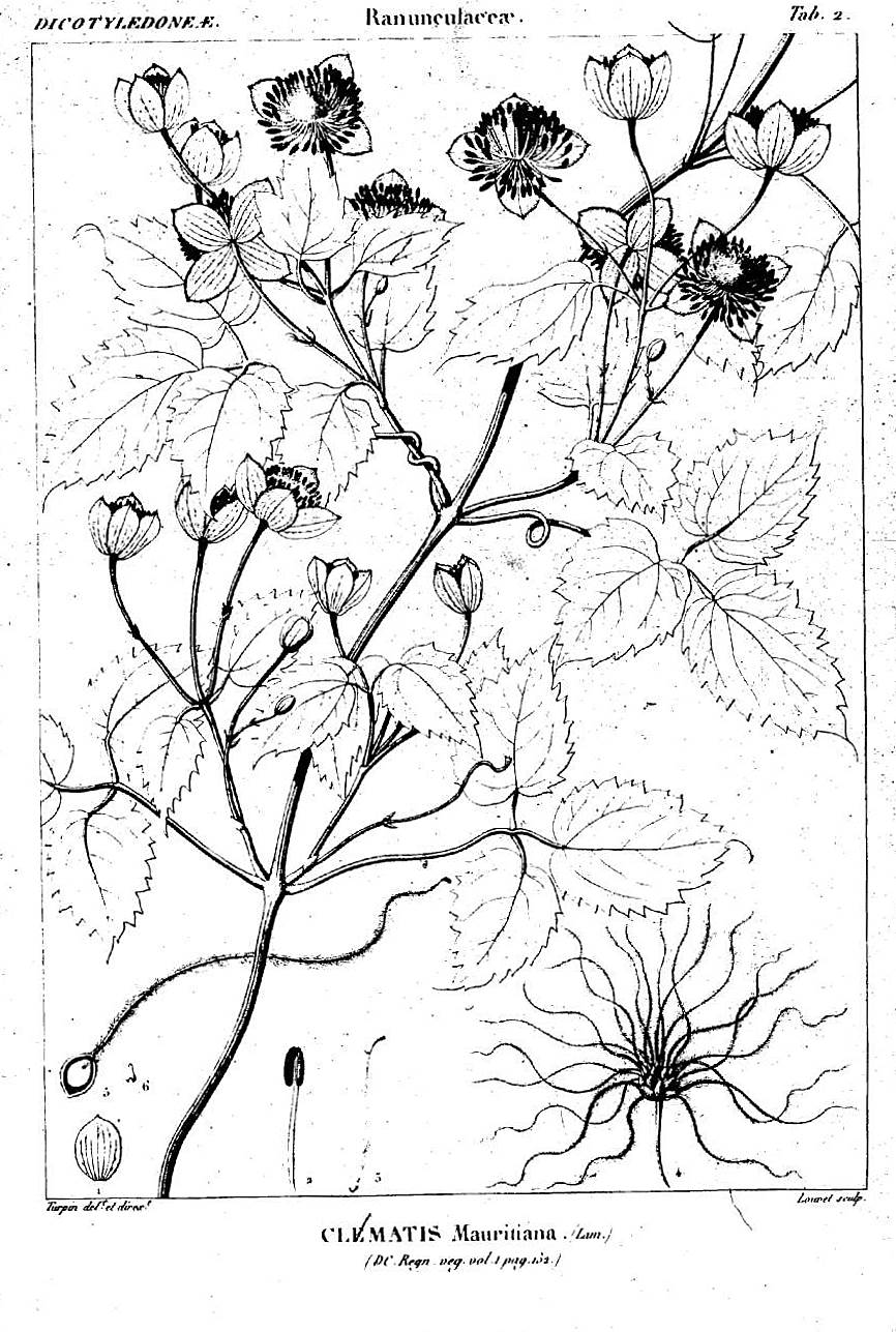 Drawing of Clematis mauritiana